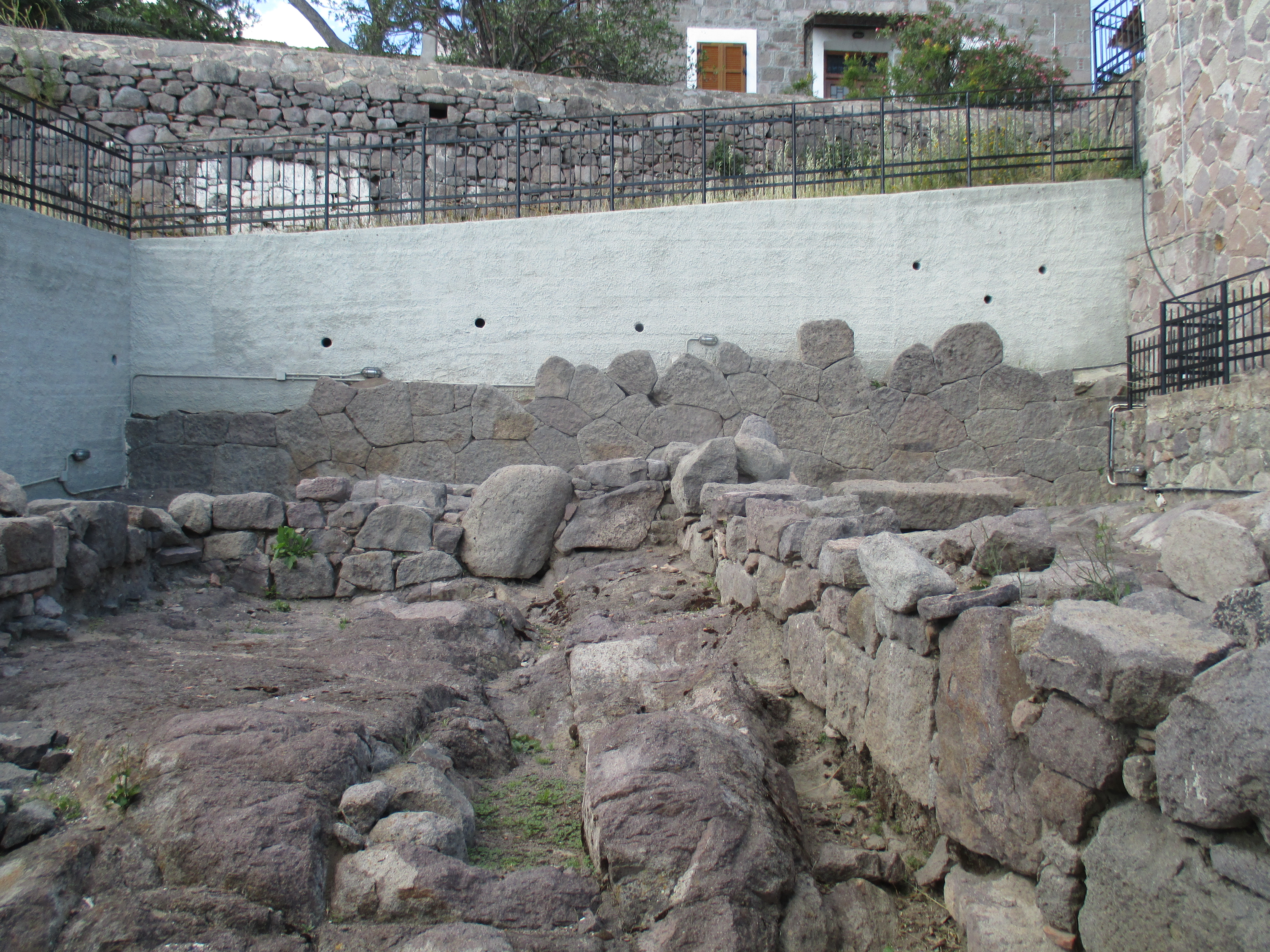 Ruins of Ancient Methymna, Lesbos, in modern Mithymna (Molyvos), Lesvos, Greece: Archaic retaining wall build on the 'Lesbian system' (7th century BC). House remains, rectangular cistern and Roman water-supply conduits (1st century BC – 1st century AD).